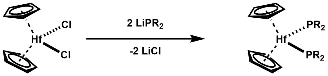 Example 2 for the synthesis of phosphido complex